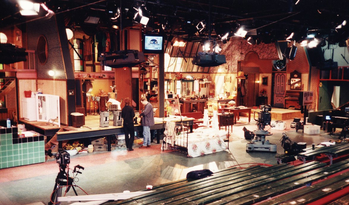 Set of Seth & Fiona comedy